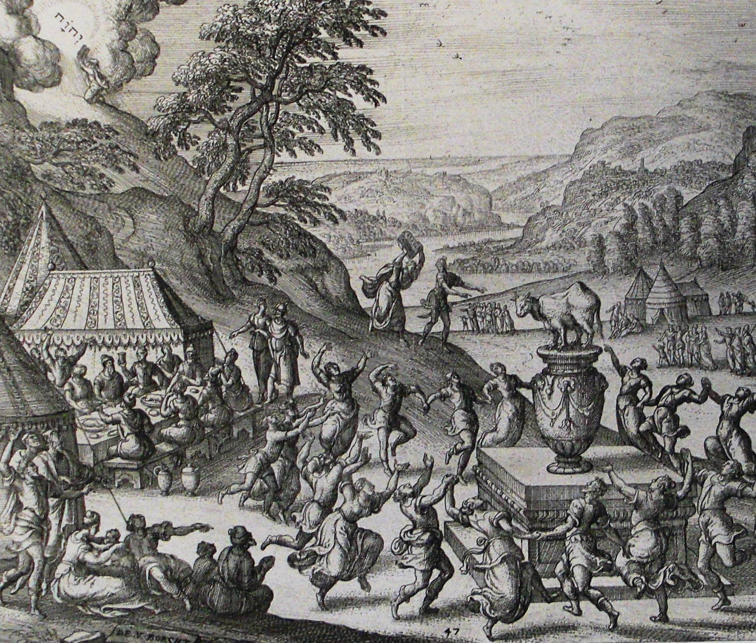 A print from the Phillip Medhurst Collection of Bible illustrations in the possession of Revd. Philip De Vere at St. George’s Court, Kidderminster, England.